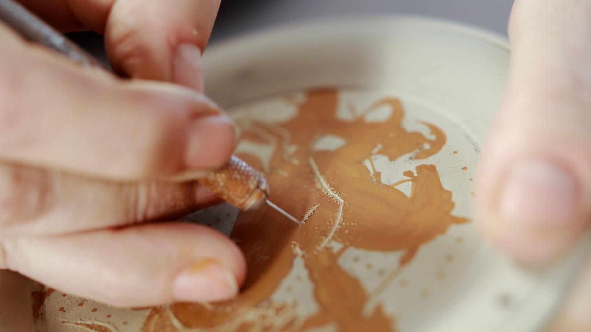 Black Figure style: Incision of the paint slip layer before firing with a pin tool. Contemporary production of BF pottery at THETIS' Workshop (Athens)